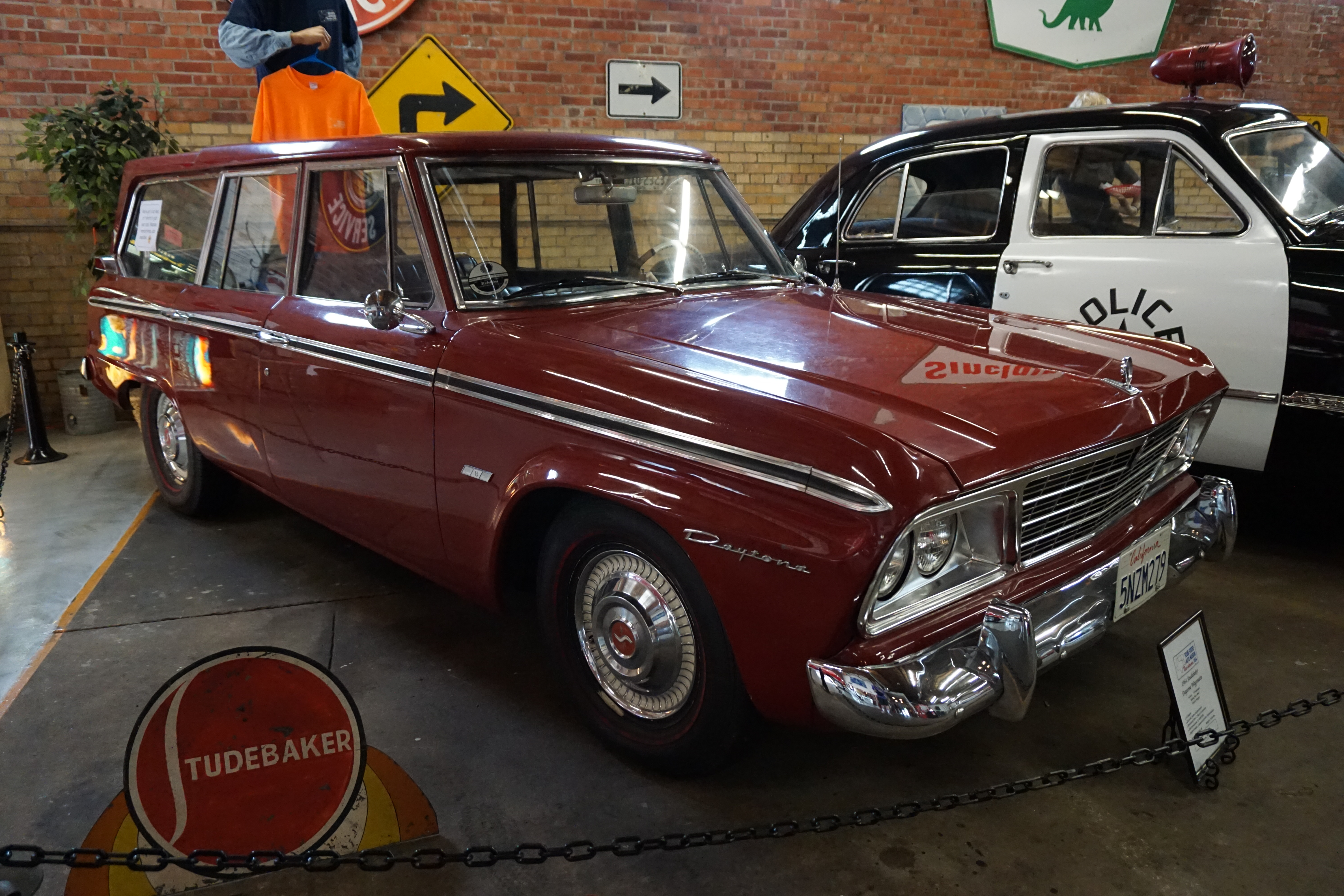 A 1964 Studebaker Daytona Wagonaire at the Four States Auto Museum in Texarkana, Arkansas (United States).